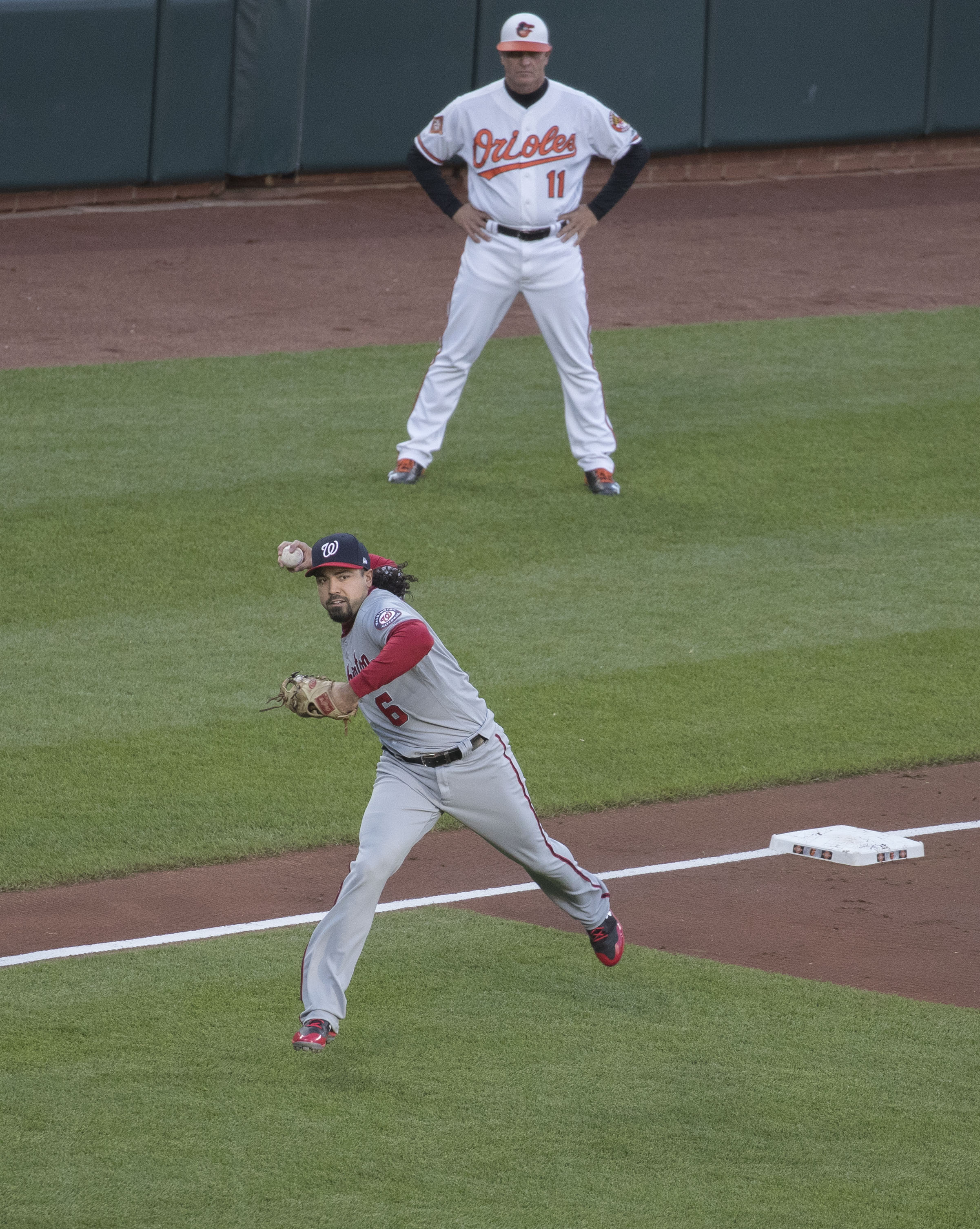 Nationals at Orioles 5/8/17